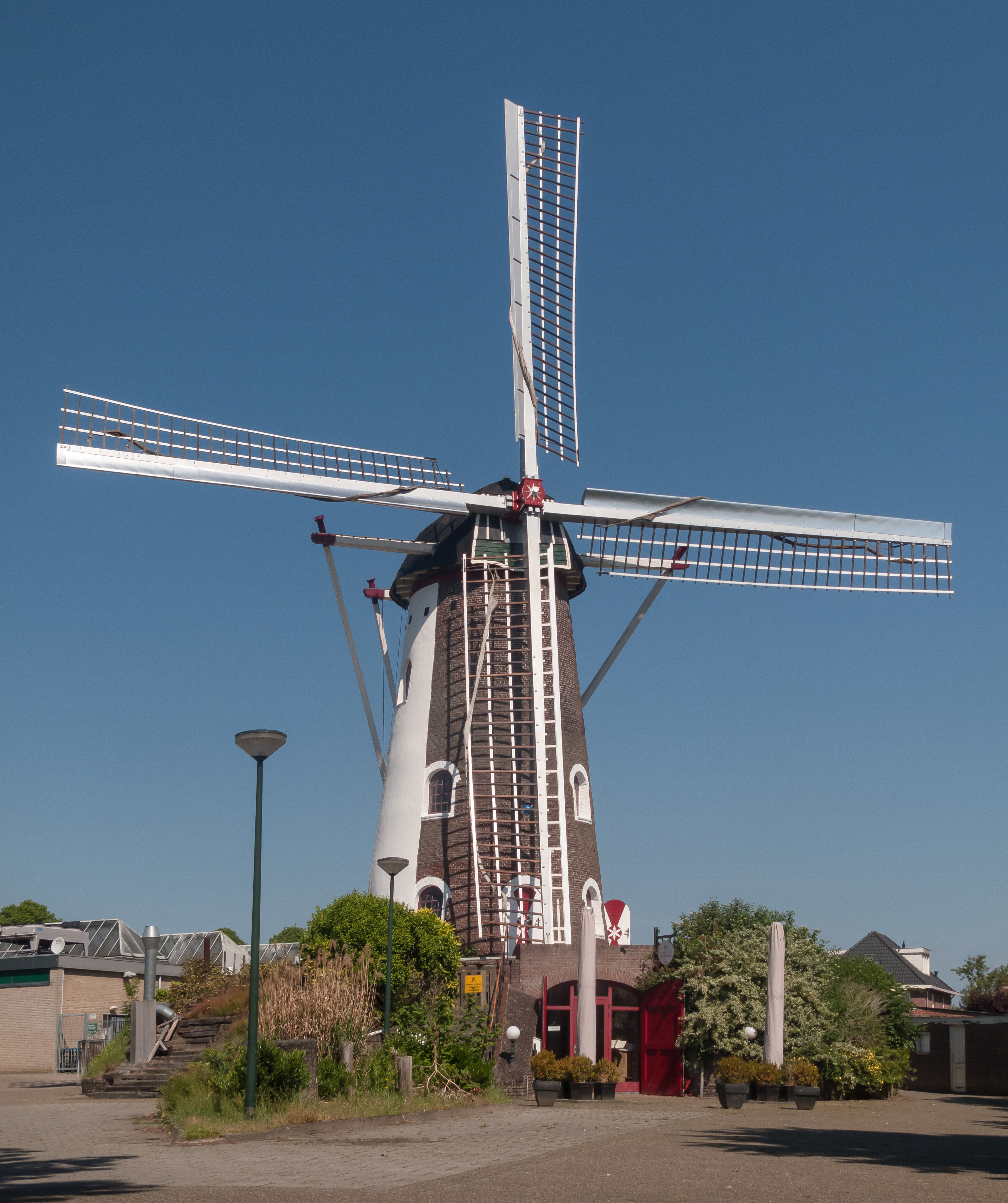 Veldhoven, windmill: windmolen De Adriaan